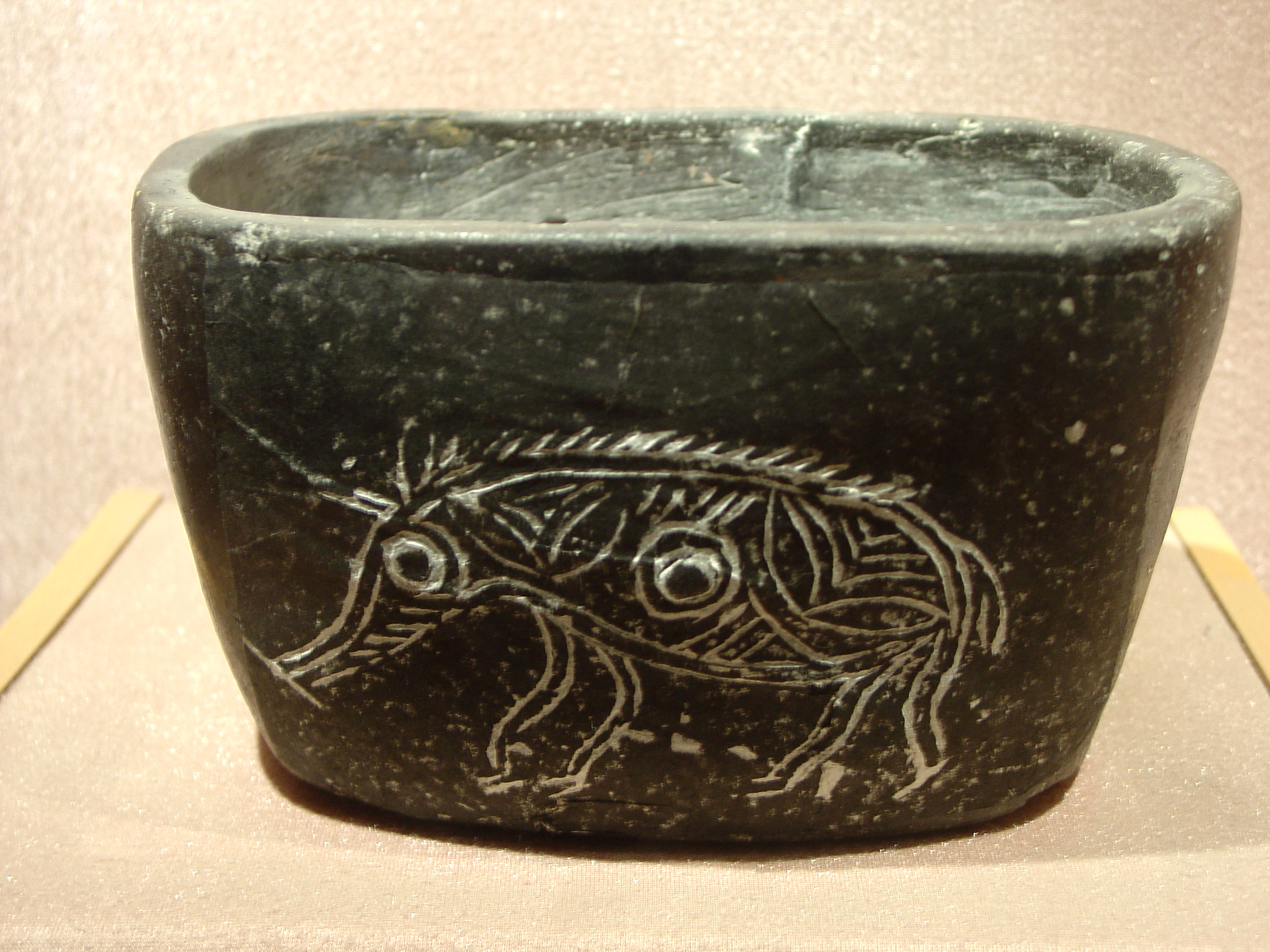 Neolithic Bow with Pig Image, 4,000 BC, excavated at Hemudu Site, exhibited in Zhejiang Provincial Museum, Hangzhou